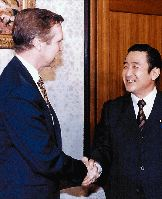 William Cohen and Ryutaro Hashimoto